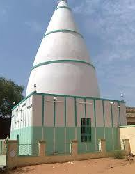 Sheikh Ismail Al wali tomb